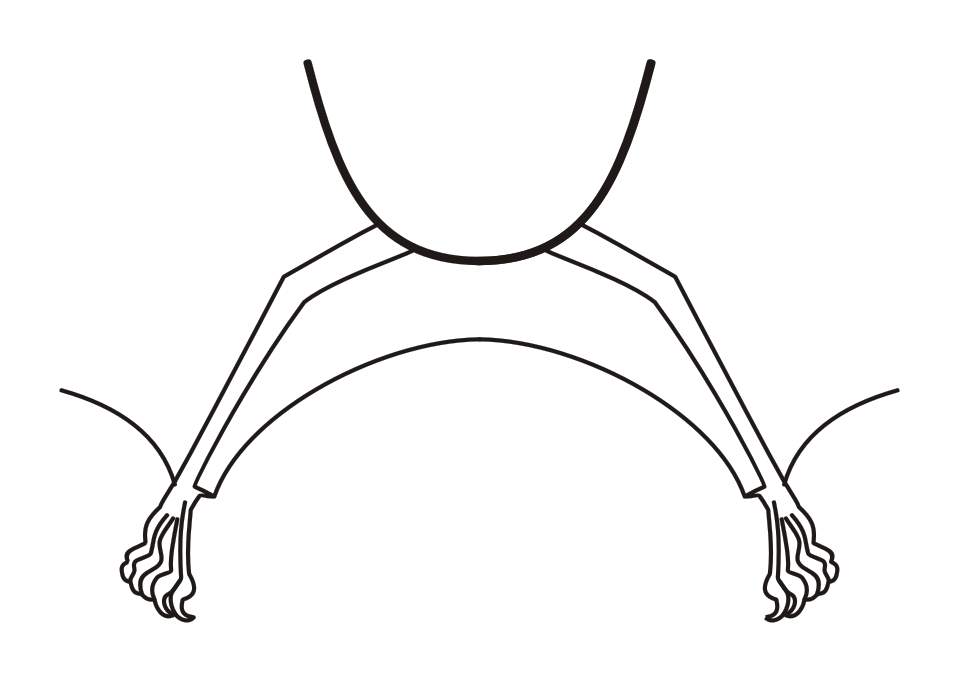 According to Novak, 1999 shows interfemoral membranes, calcar, feet and tail in bats of genus Brachyphylla